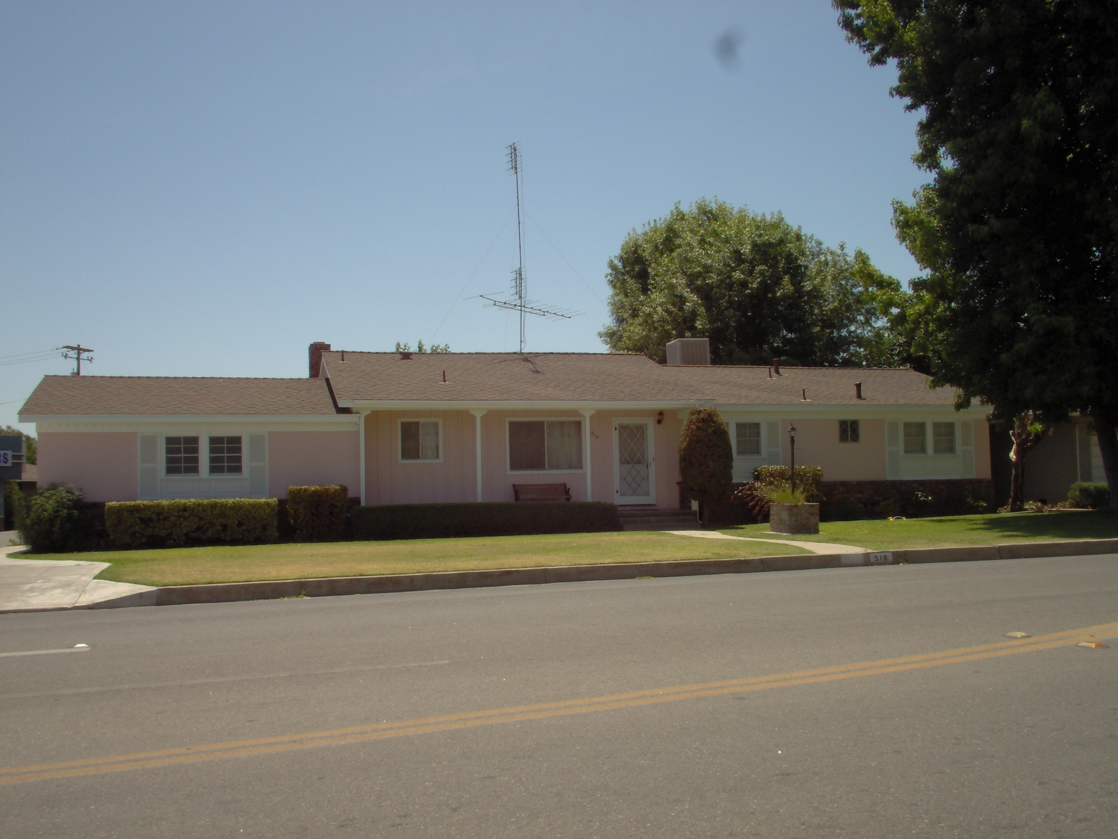 Mid 1950s ranch house in California. Note western detailing in porch, window muttons, and board and batten siding. Also note evaporative cooler on roof. (aka swamp cooler)